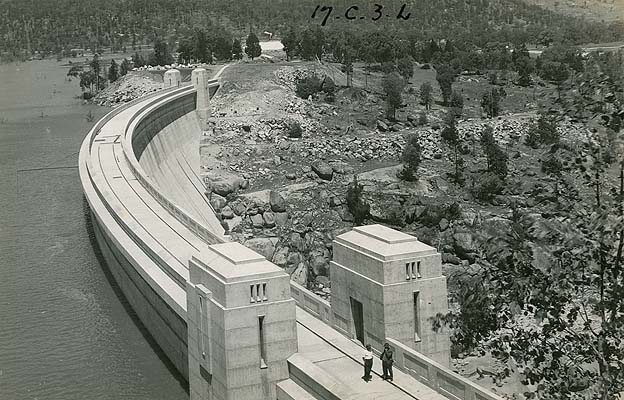 Wyangala Dam on the Lachlan River Dated: No date Digital ID: 12932_a012_a012X2441000093 Rights: We'd love to hear from you if you use our photos. Many other photos in our collection are available to view and browse on our website using Photo Investigator .